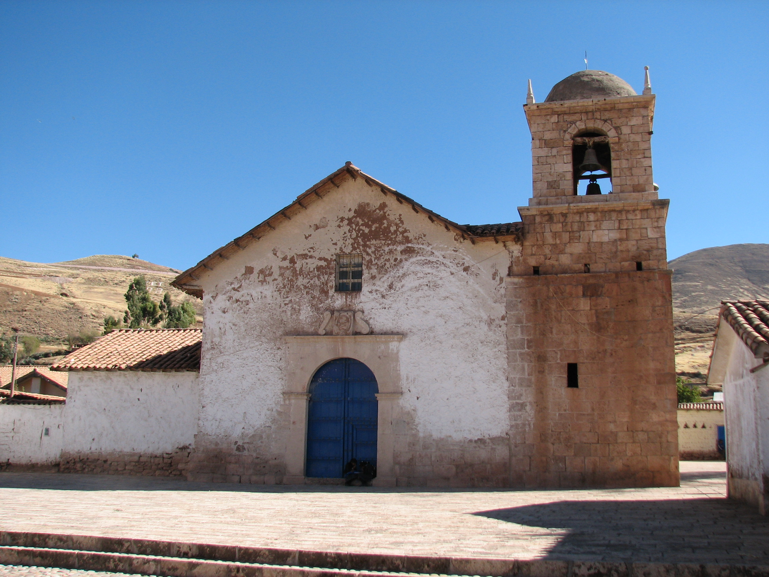 Church in Tinta, Peru.